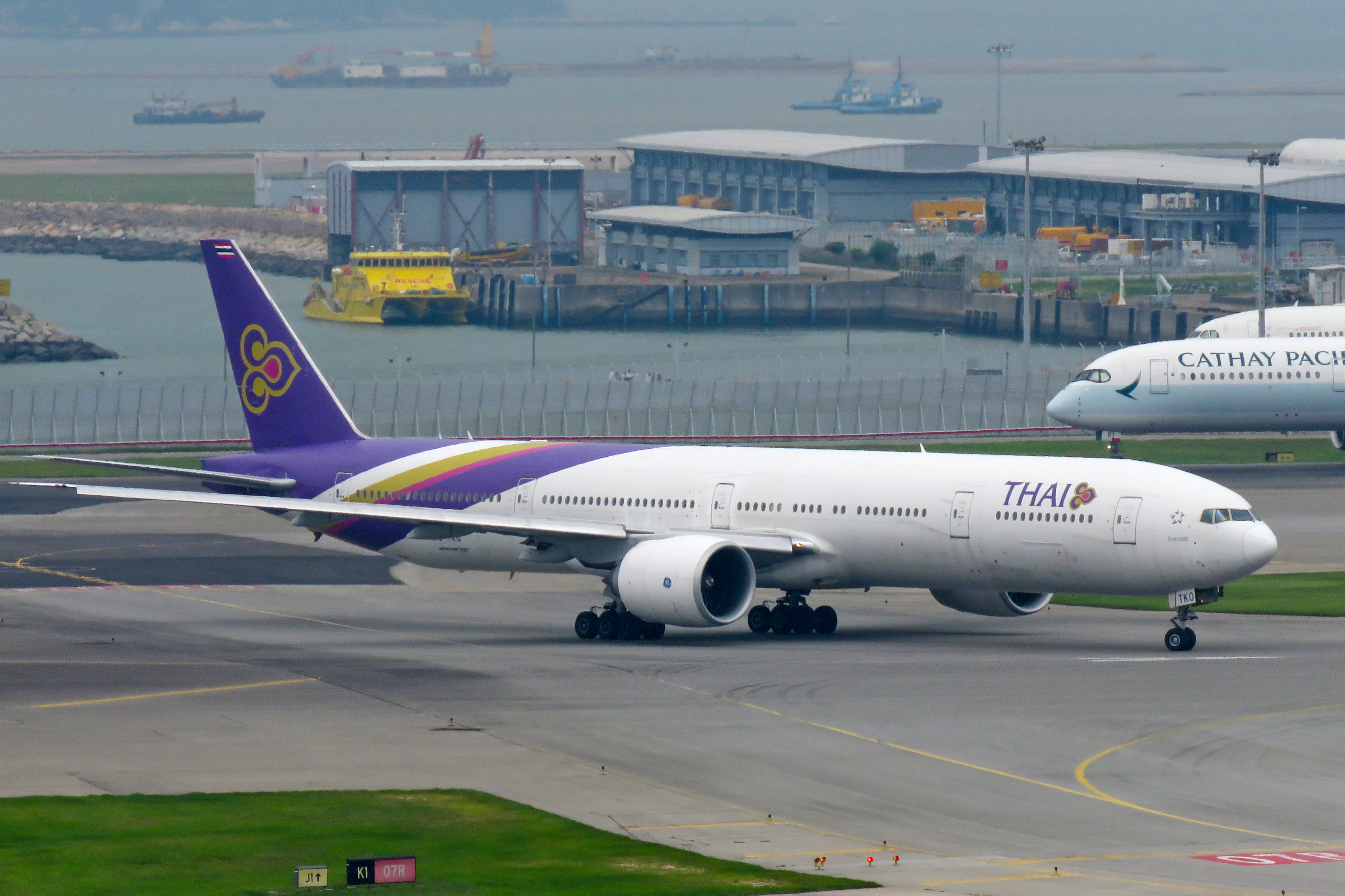 Thai 601 to Bangkok. TKO can be the acronym for Technical Knockout, a term in boxing, or Tseung Kwan O, a bay or its adjacent town in Hong Kong.